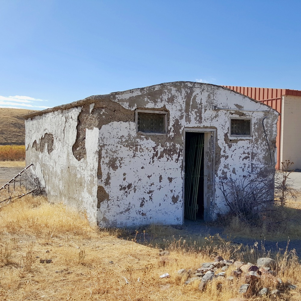 Fort McDermit Original Jail, photo by John Stanton 11 Oct 2016